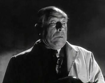 Frank Puglia in 20 Million Miles to Earth - trailer (cropped screenshot)